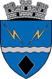 Coat of arms of Rovinari